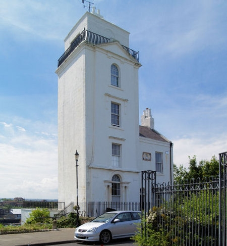 Fish quay high light. Attached to adjacent building, built 1807.